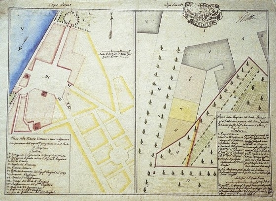 Site plan of place Victor (now place Garibaldi) of Nice, France.